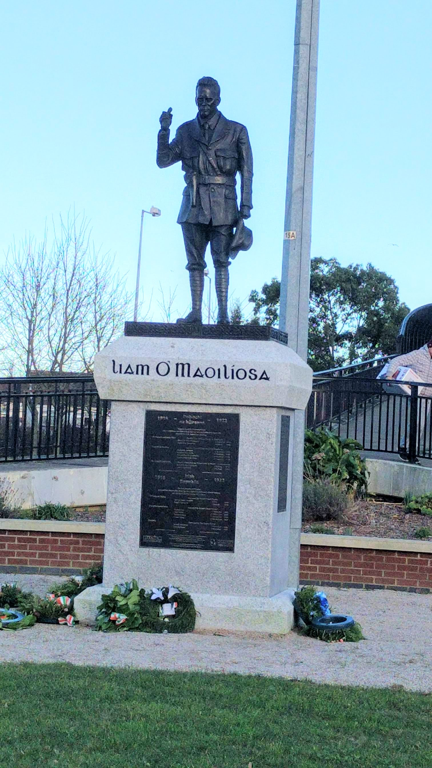 Liam Mellows memorial statue in Finglas, Dublin. In the townland of Cardiffscastle, in the civil parish of Finglas, in the barony of Castleknock.